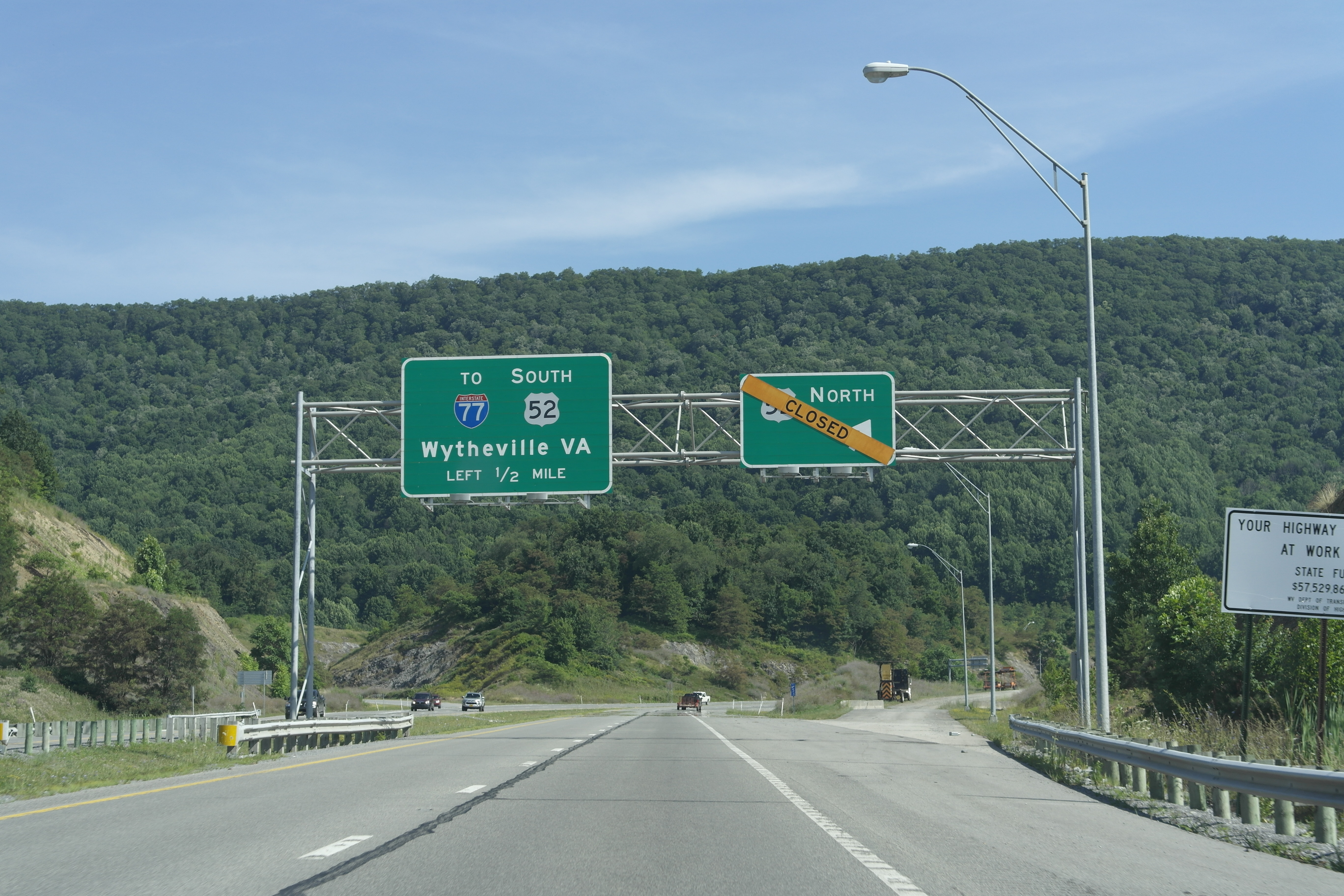 The future overpass for the King Coal Highway in Bluefield, WV.